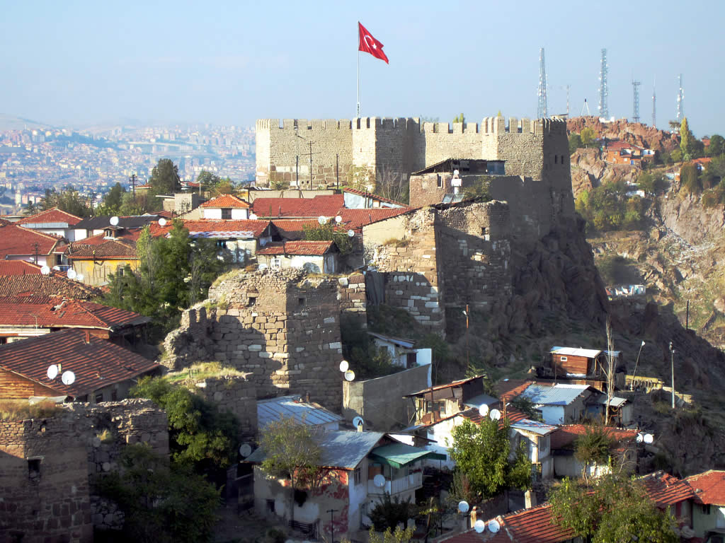 The high stone walls of Ankara's Citadel were built between the 7th and 9th centuries by Byzantine emperors.